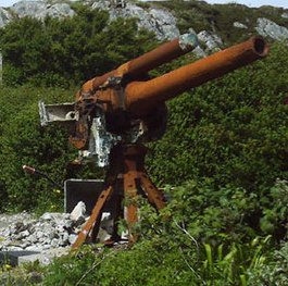 Arinagour Hotel. Possible relic from wartime wreck. A naval conversion of the 18-pdr for arming DAMS.